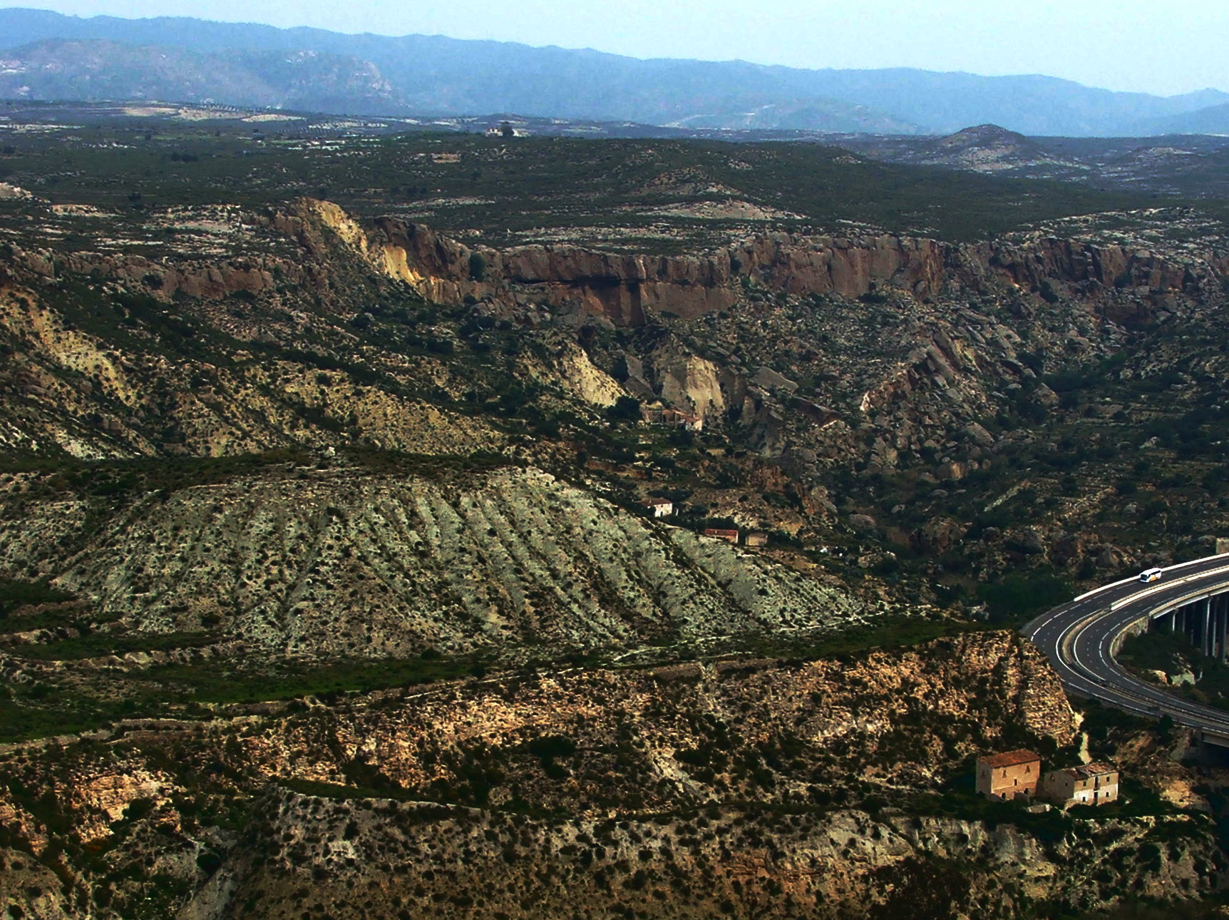 A view of a valley through the Sorbas basin, south Spain